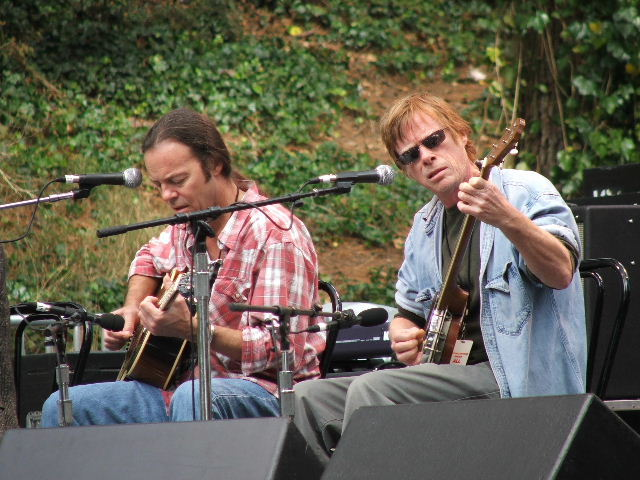 Kieran Kane (right) with Kevin Welch at Hardly Strictly Bluegrass Festival (2005). Photo by Ron Baker.